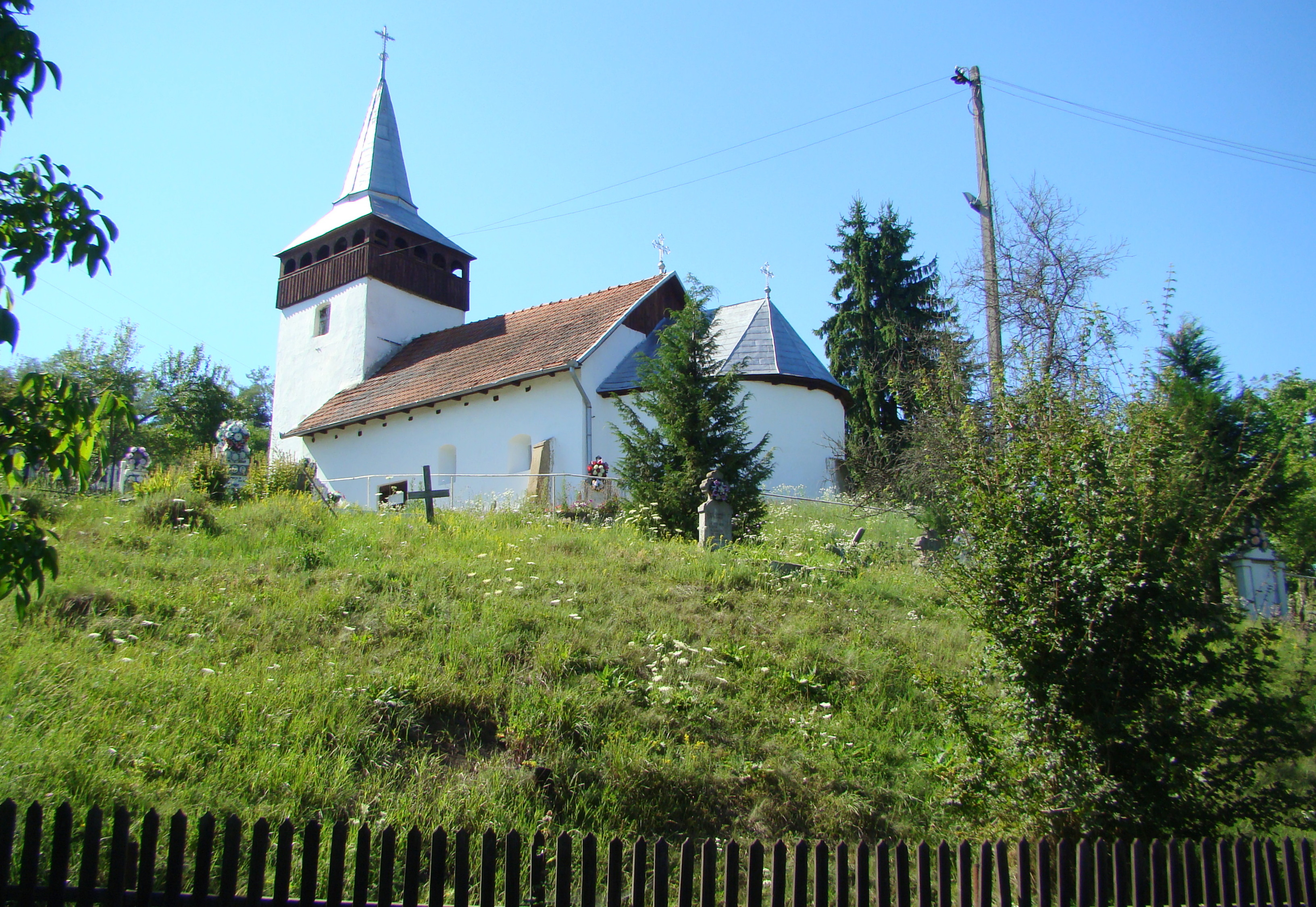 Orthodox church of the Annunciation in Almașu Mare, Alba county, Romania